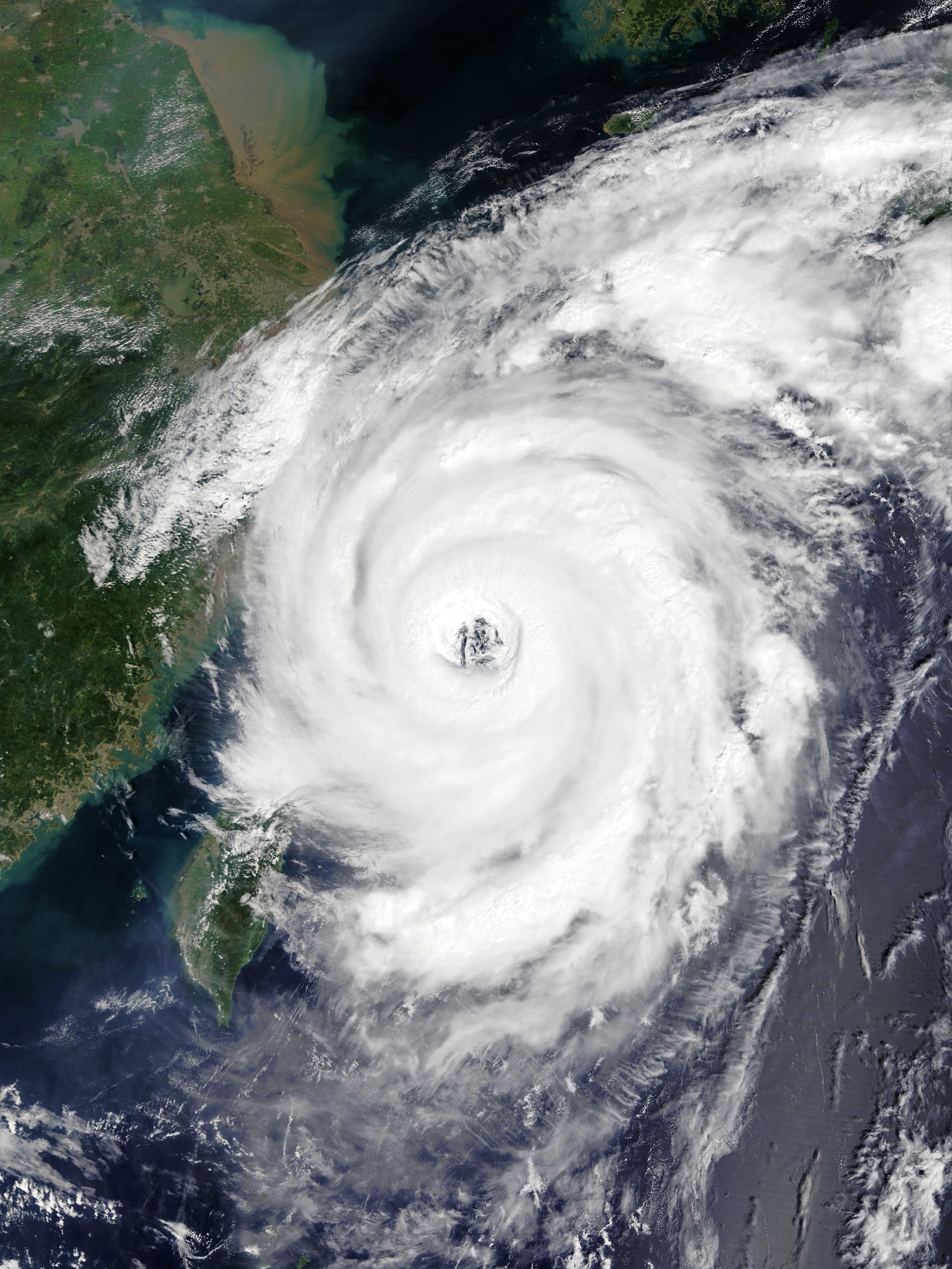 Typhoon Talim over the East China Sea near Shanghai at peak intensity on September 14, 2017.